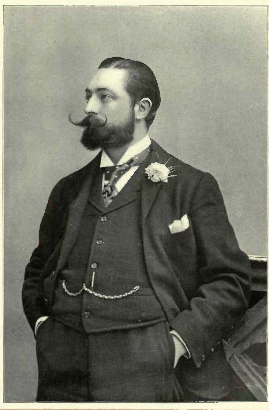 Photo of Ivan Caryll